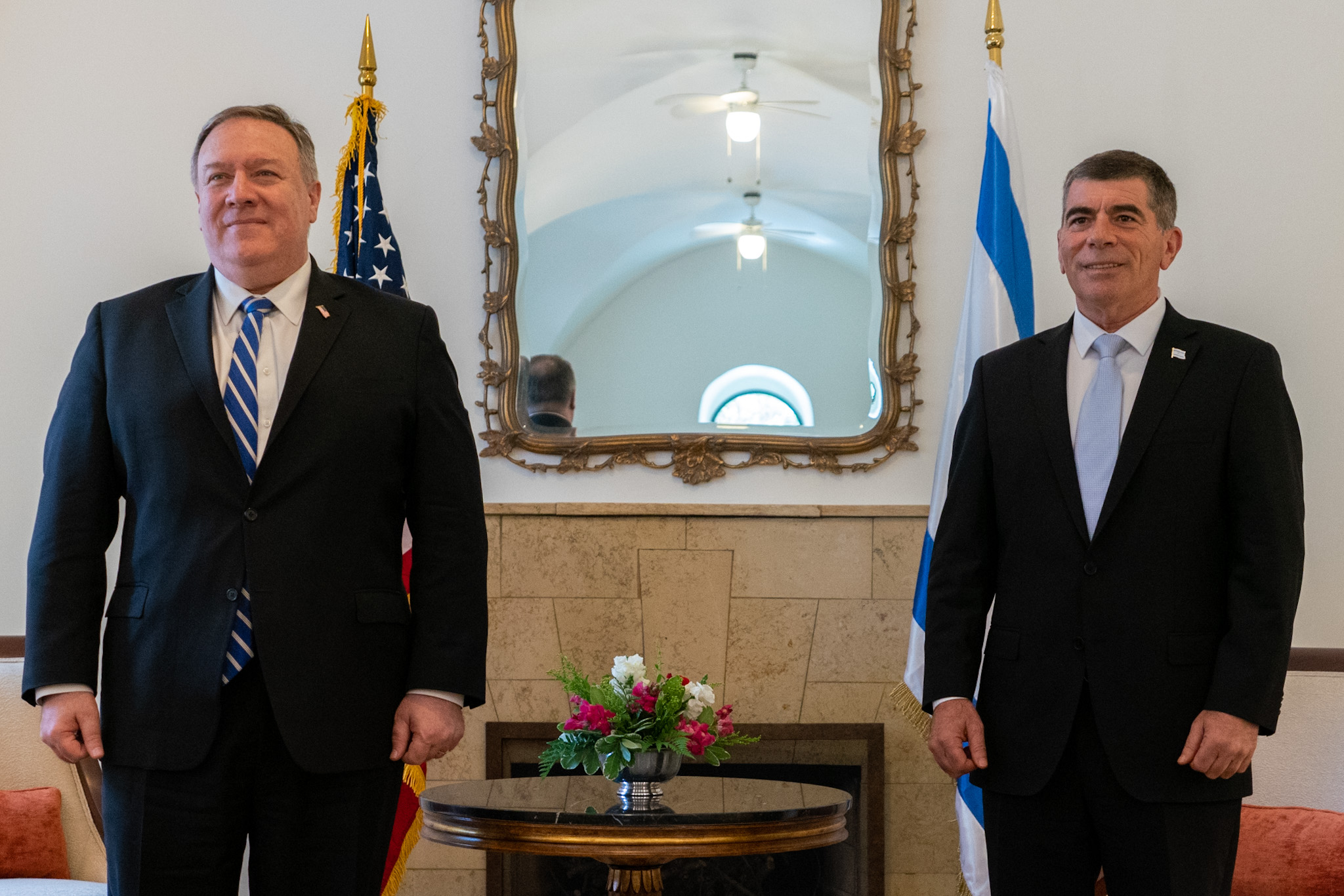 U.S. Secretary of State Michael R. Pompeo meets with Foreign Minister-Designate Gabi Ashkenazi in Israel on May 13, 2020. [State Department Photo by Ron Przysucha/ Public Domain]